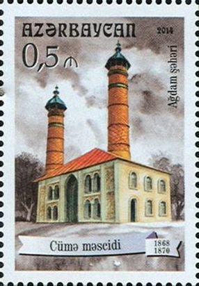 Stamps of Azerbaijan, 2014